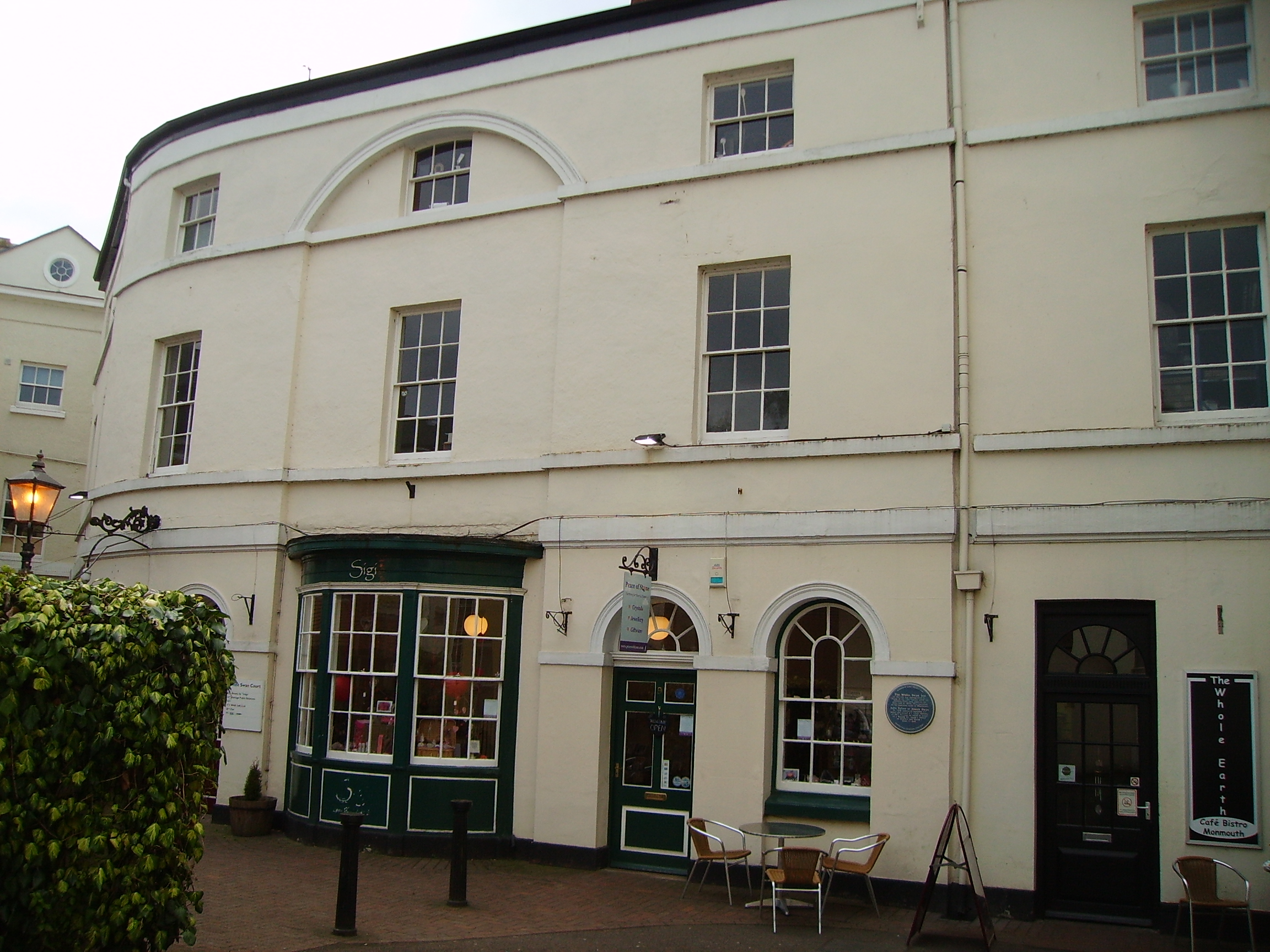 White Swan Court, Church Street, Monmouth, Monmouthshire, Wales, Great Britain